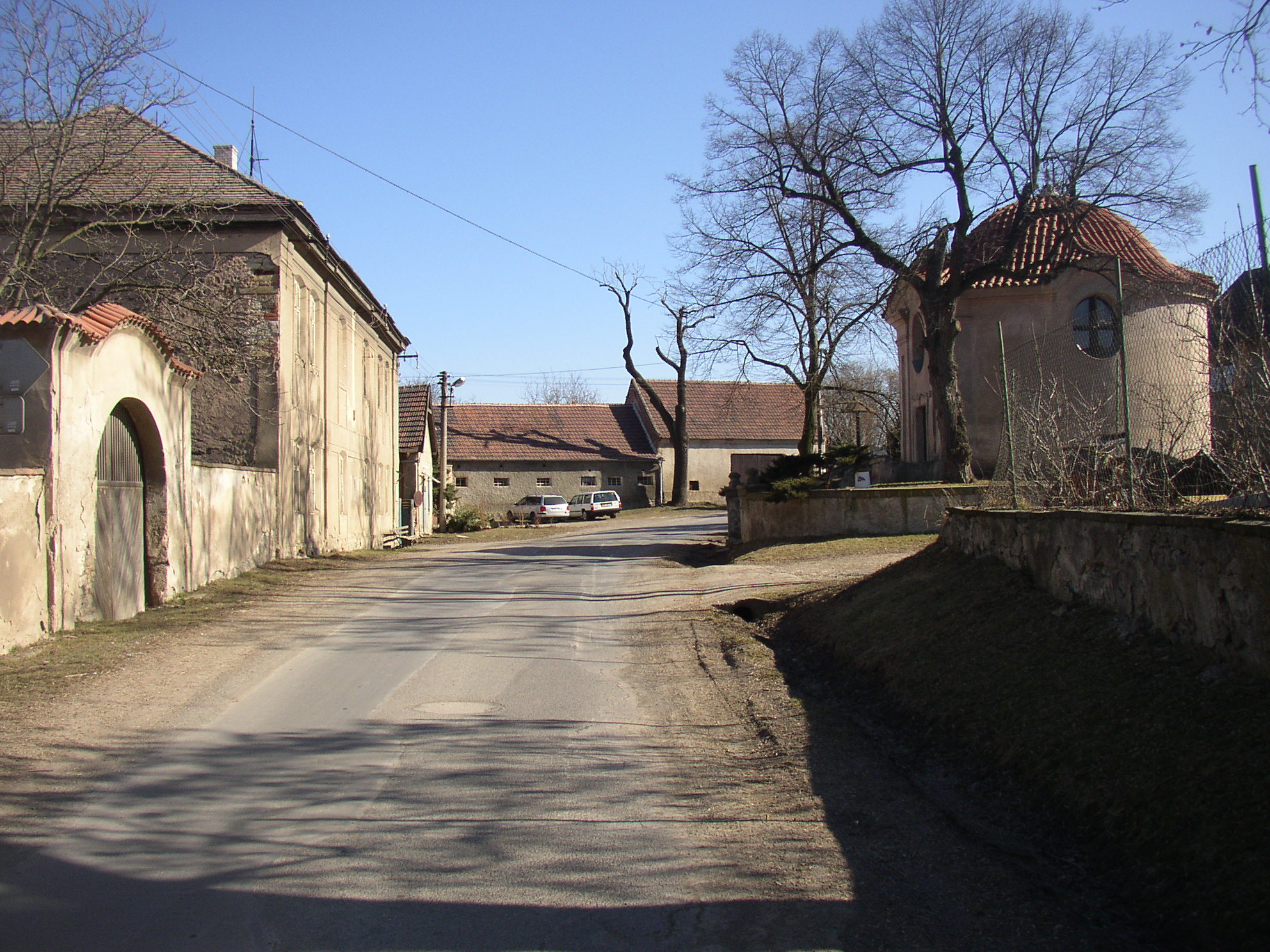 Northern and eastern side of common and St Michael the Archangel chapel in village of Kozinec, part of Holubice municipality, Prague-West District, Czech Republic. View from the west.